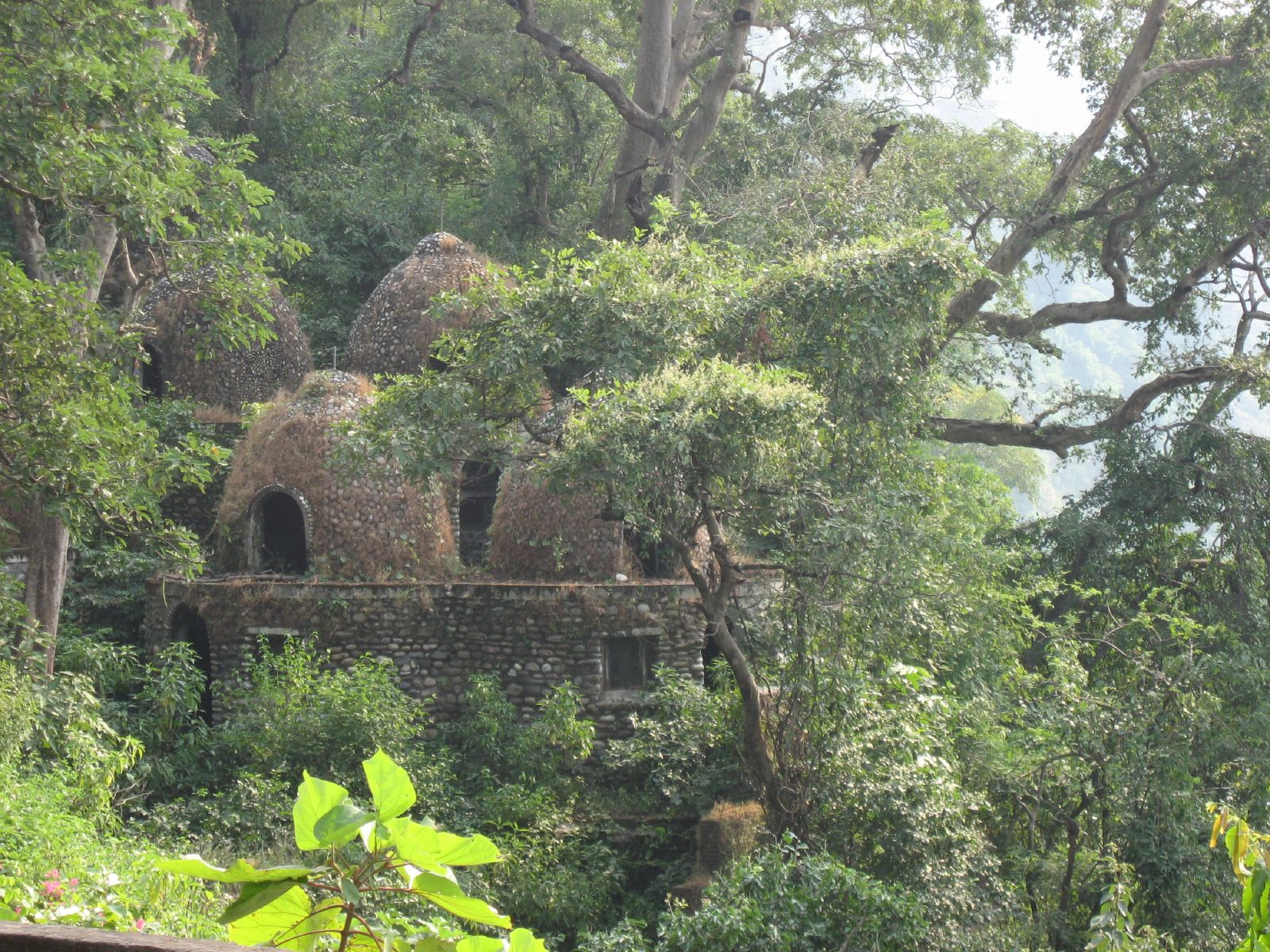 Maharishi Mahesh Yogi had built 121 meditation huts in his Ashram in Rishikesh so that Sadhus could reside, do their spiritual practices and take their meals. These buildings are post-Beatles' memorable stay - which made this Ashram world famous in February 1968 when the Fab four went there to deepen their experience of Transcendental Meditation practice. In the nineties the lease of the Ashram was not renewed by the Rajaji National Park and Uttarakhand Forest Department authorities. According to ancient Vastu principles, the location of the Ashram is not considered auspicious. Vastu shastras states that one should build on an Eastern slope with unobstructed view of sunrise and that the river should be on the Eastern or Northern side. New Maharishi Ashrams are now in auspicious Vastu locations on the Ganges, near Allahabad, in Uttarakashi and at the Brahmastan of India (geographical center) of India Madhya Pradesh.